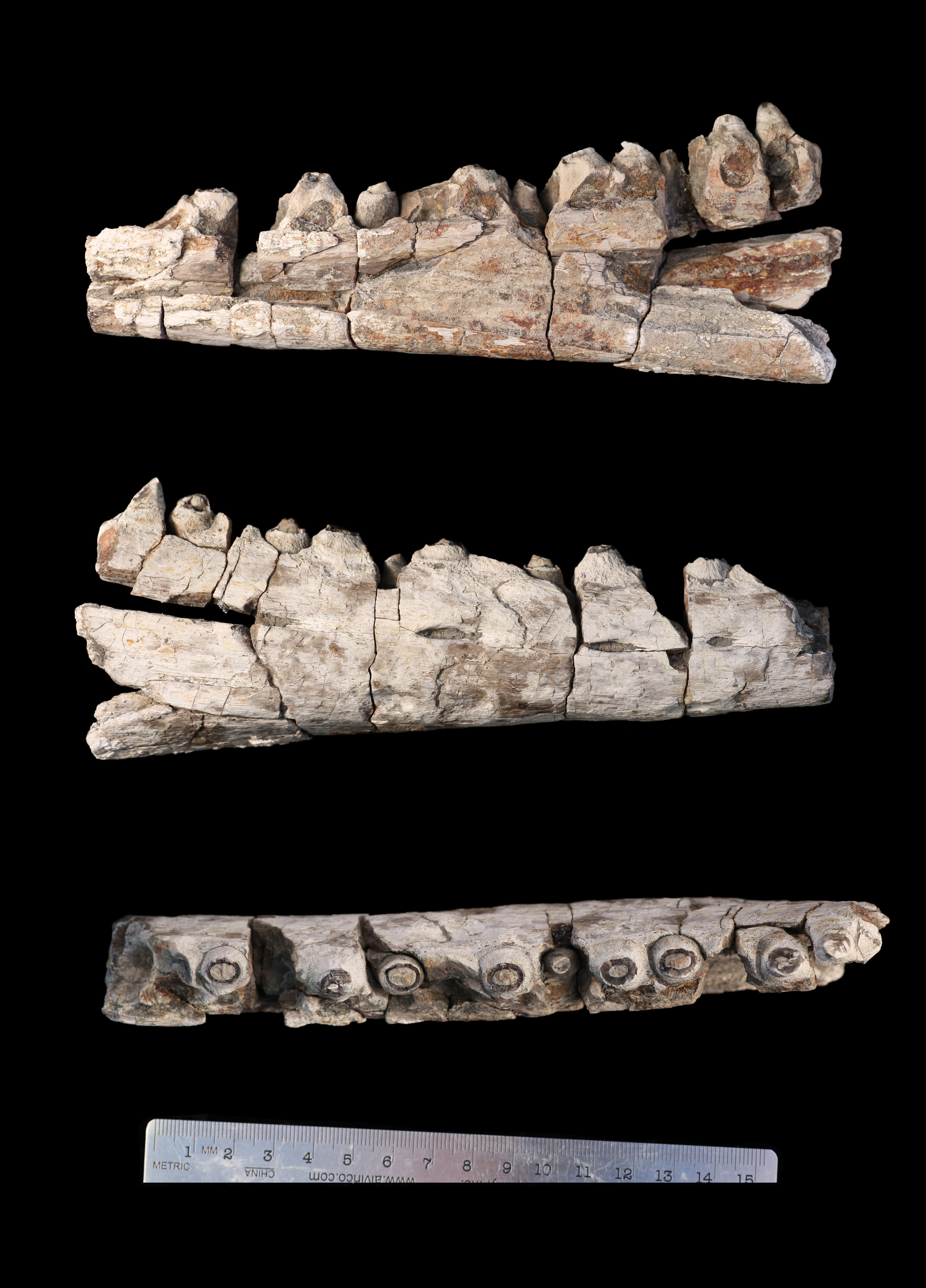 Holotype of the mosasaur Pluridens calabaria (Squamata: Mosasauridae: Halisaurinae) from the latest Cretaceous (upper Campanian) of the Nkporo Shale, near Calabar, Nigeria, Africa. Photography by Nick Longrich. Digital editing by Nick Longrich.